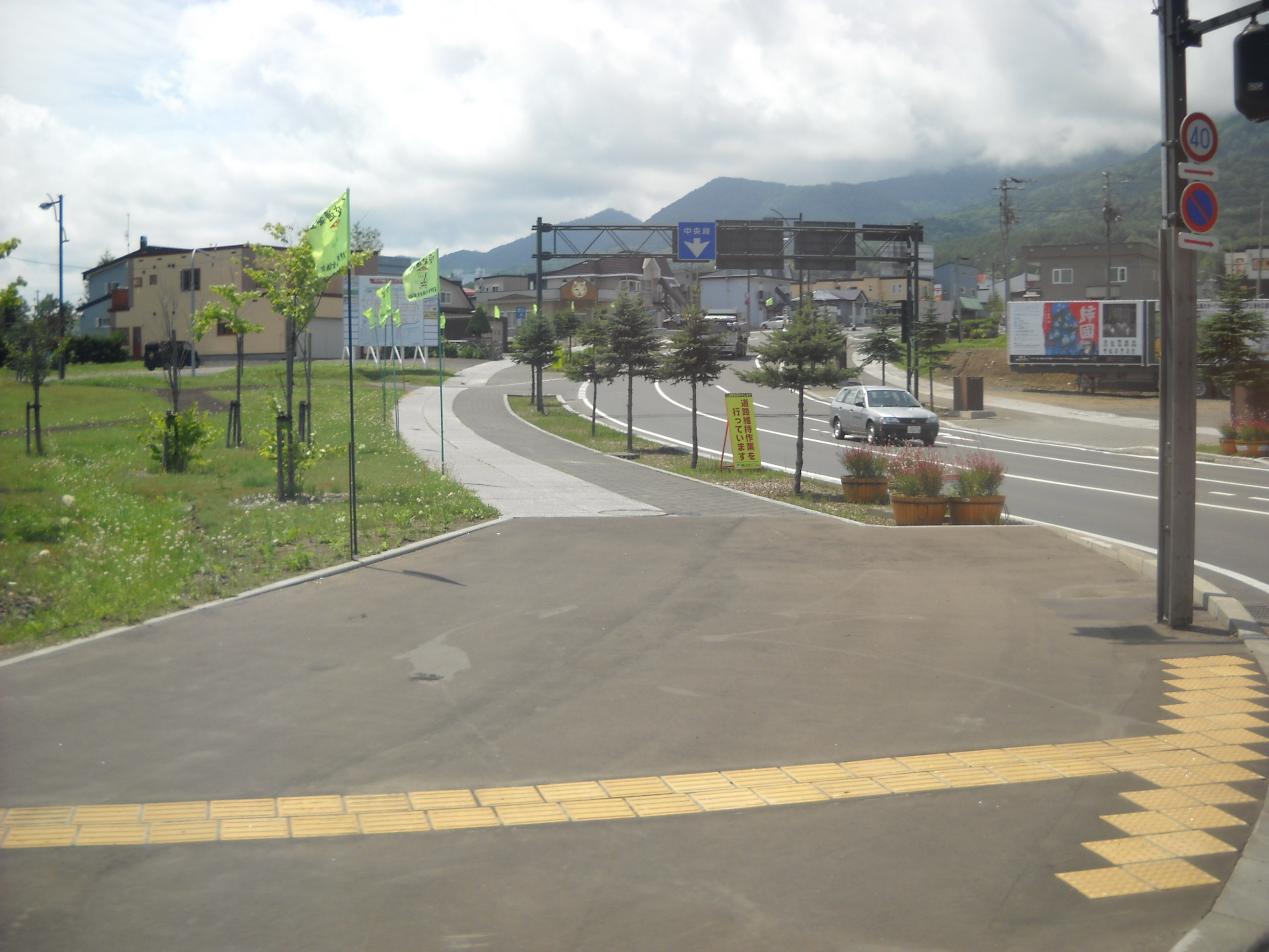 Hokkaido prefectural road route800, Furano, Hokkaido, Japan